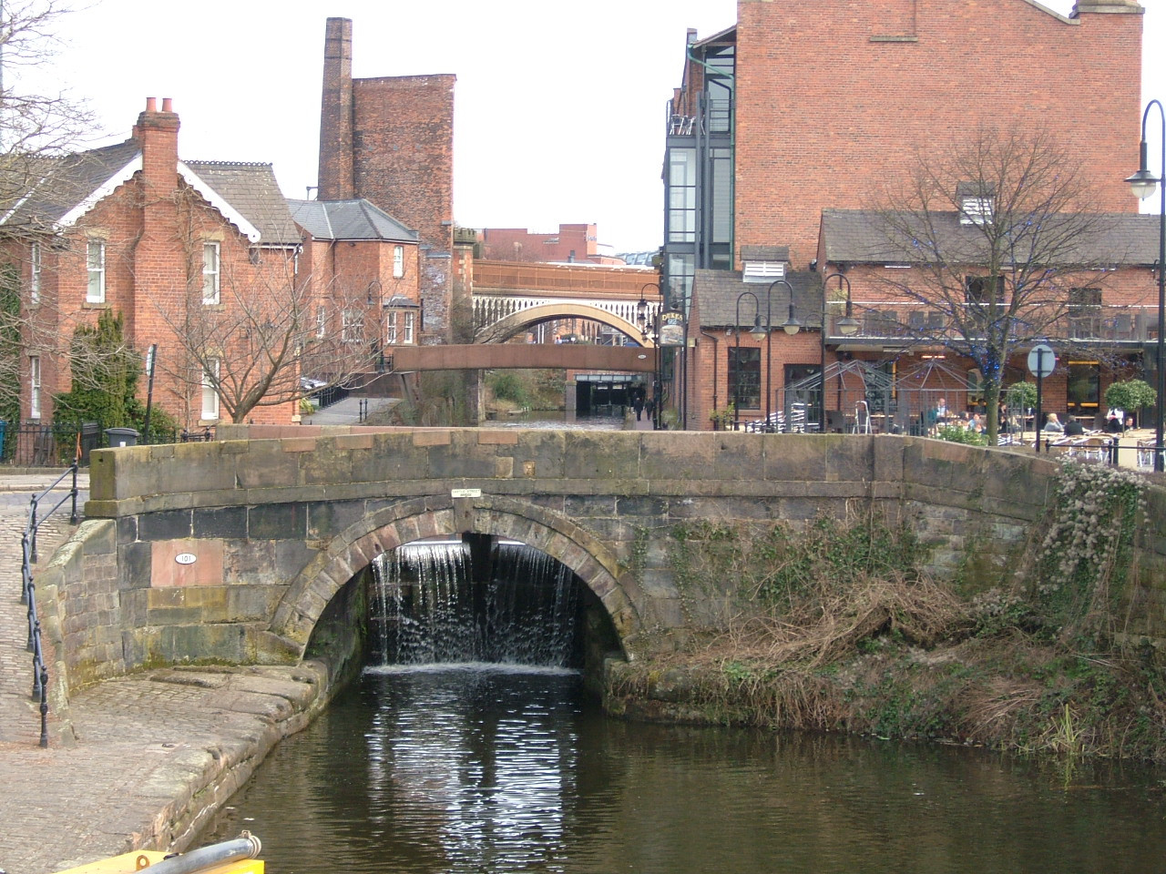 The Bridgewater Canal was commissioned by Francis Egerton, 3rd Duke of Bridgewater, to transport coal from his mines in Worsley to Manchester. Castlefield was the Manchester basin, and it was watered by the River Medlock. Here the Rochdale Canal joins emerging from under Castle St Bridge. Looking along the Rochdale Canal, we can see the Architects Bridge, lock 92, lock 91, and the MSJ&AR 1848 bridge.